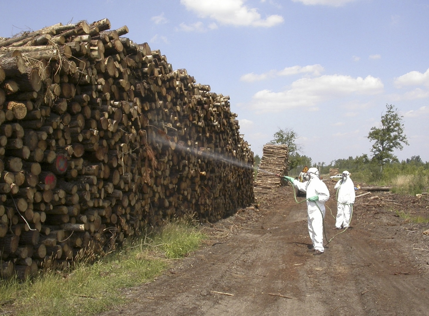 Insecticide treatment of pine (Pinus sp.) logs for Ips sexdentatus, France